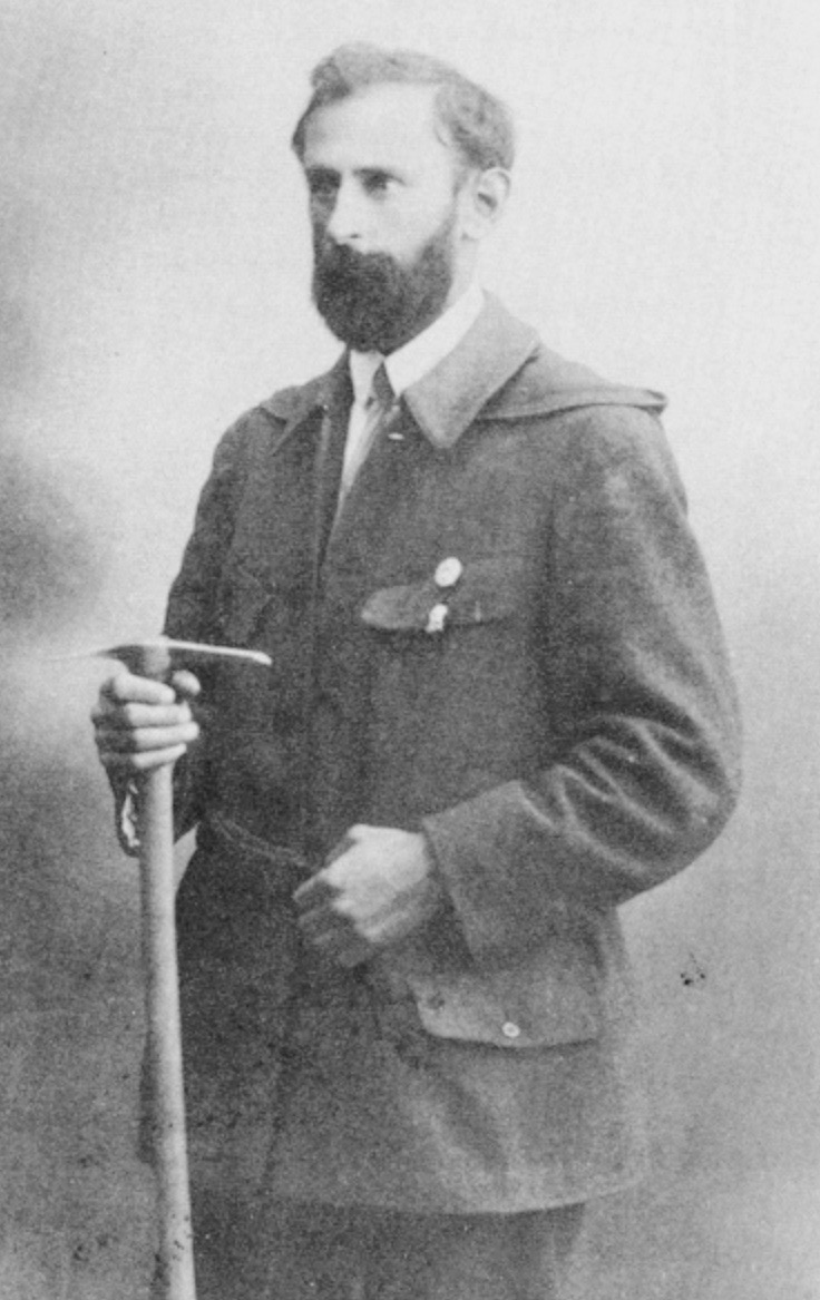 Adolphe Ferrière (1879–1960), Swiss reform pedagogue and author